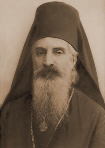 Photo of bishop Nikodim Milaš (1845-1915)